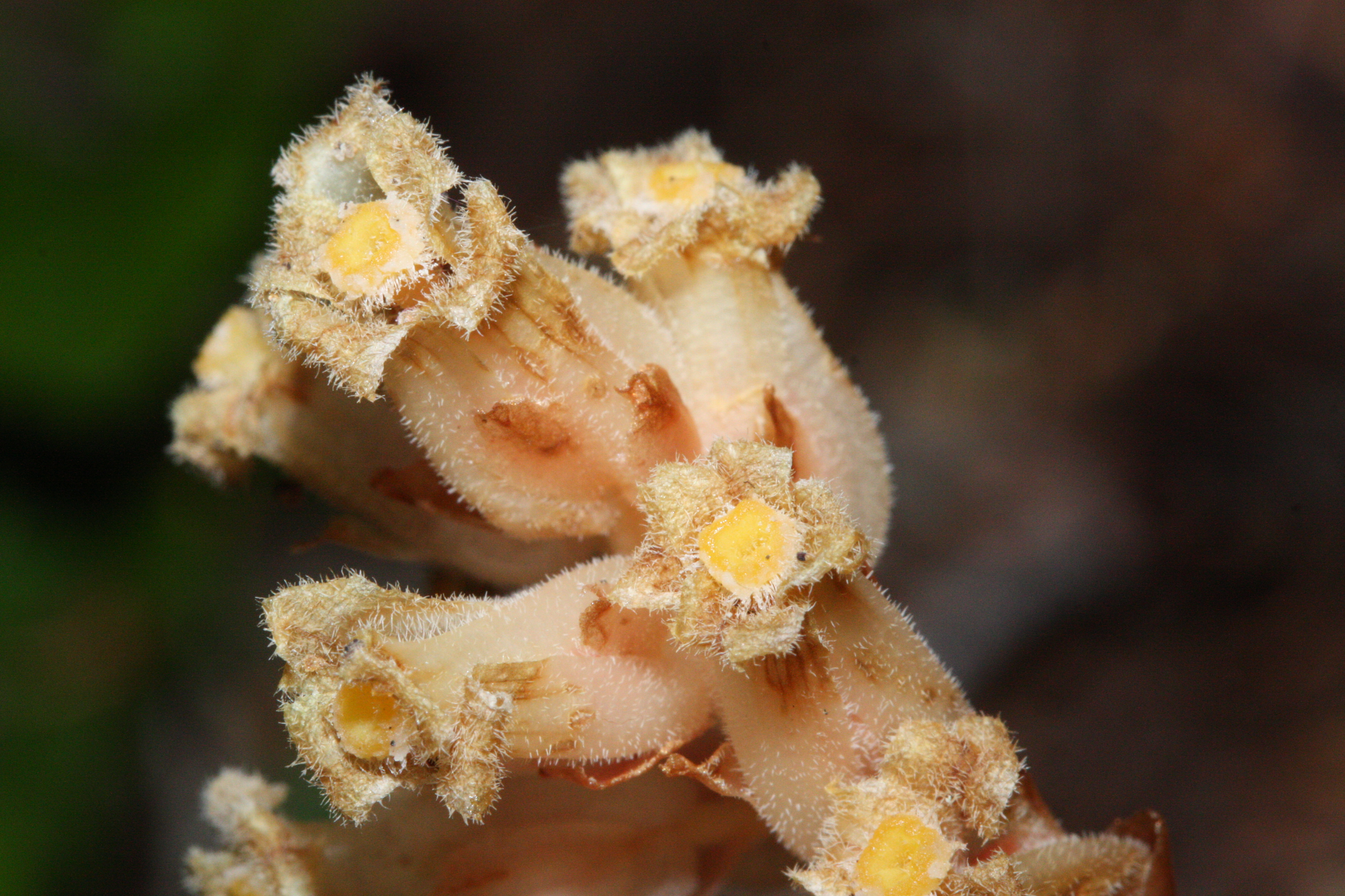 Pinesap, Many-flower Indian-pipe